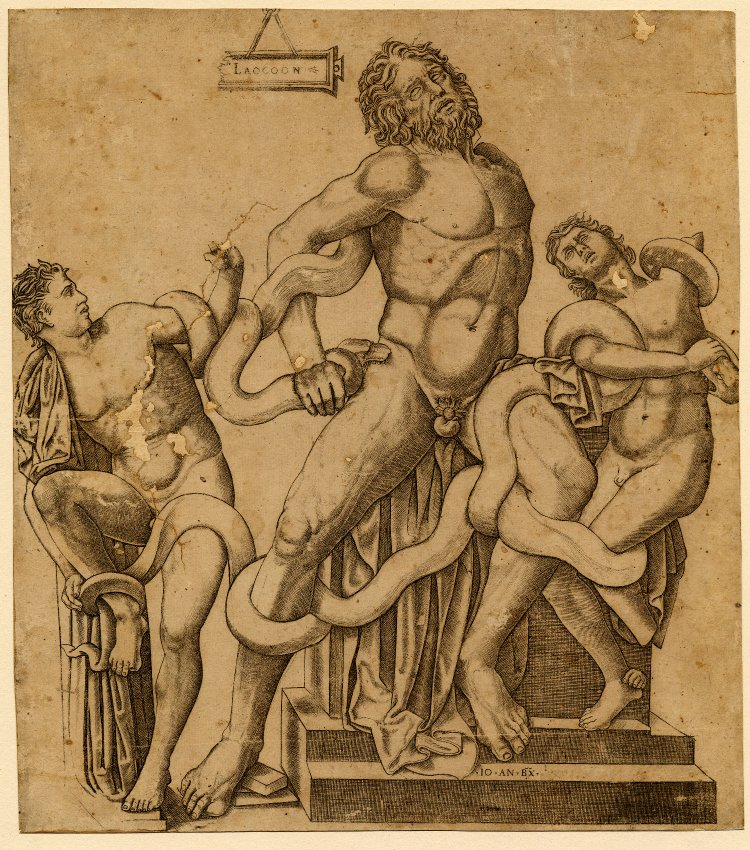 Engraving by Giovanni Antonio da Brescia, c. 1500-1519. British Museum